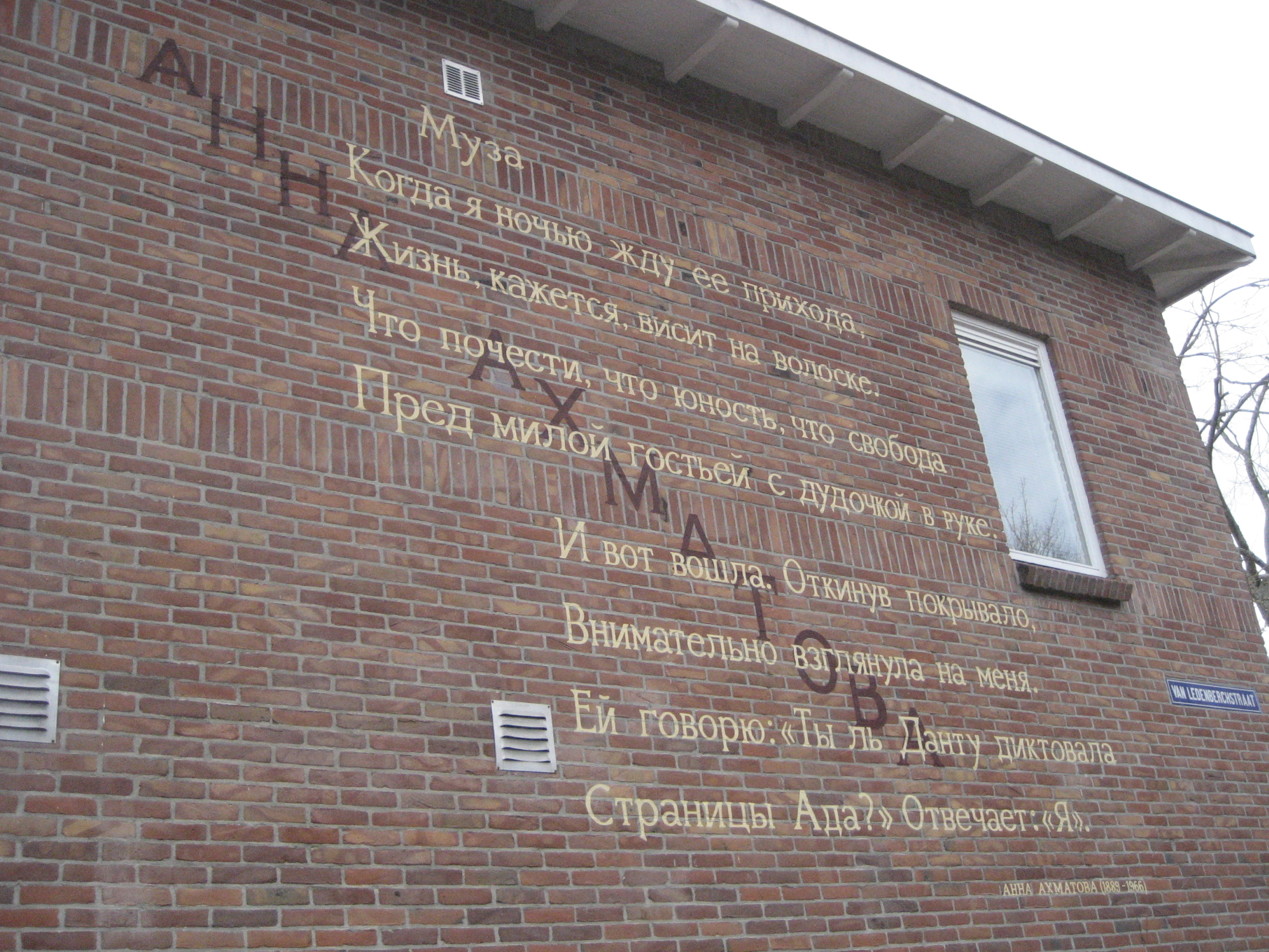 Poem Муза (Muze) by Anna Achatova on a wall in Leiden (The Netherlands). Street: Van Ledenberchstraat, corner Johan de Wittstraat